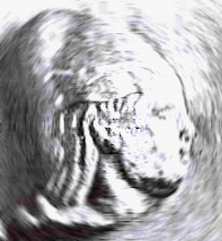 The Scythian king Palacus, relief from Scythian Neapolis, Crimea, 2d century BC